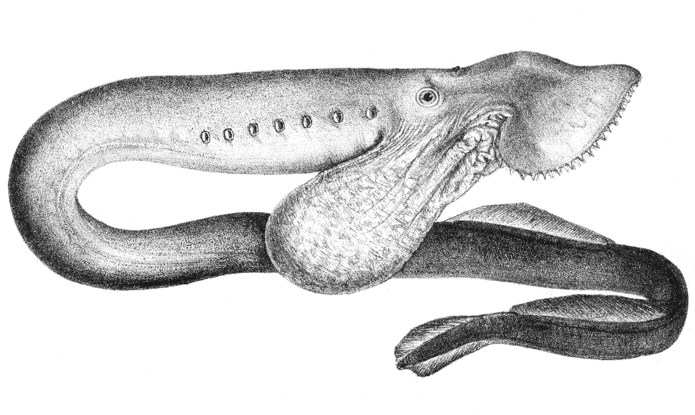 Pouched Lamprey, adult male